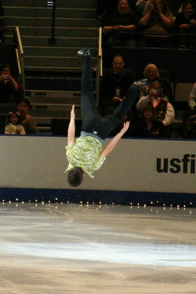 Ryan Bradley performs a backflip during his exhibition program at the 2006 Skate America.